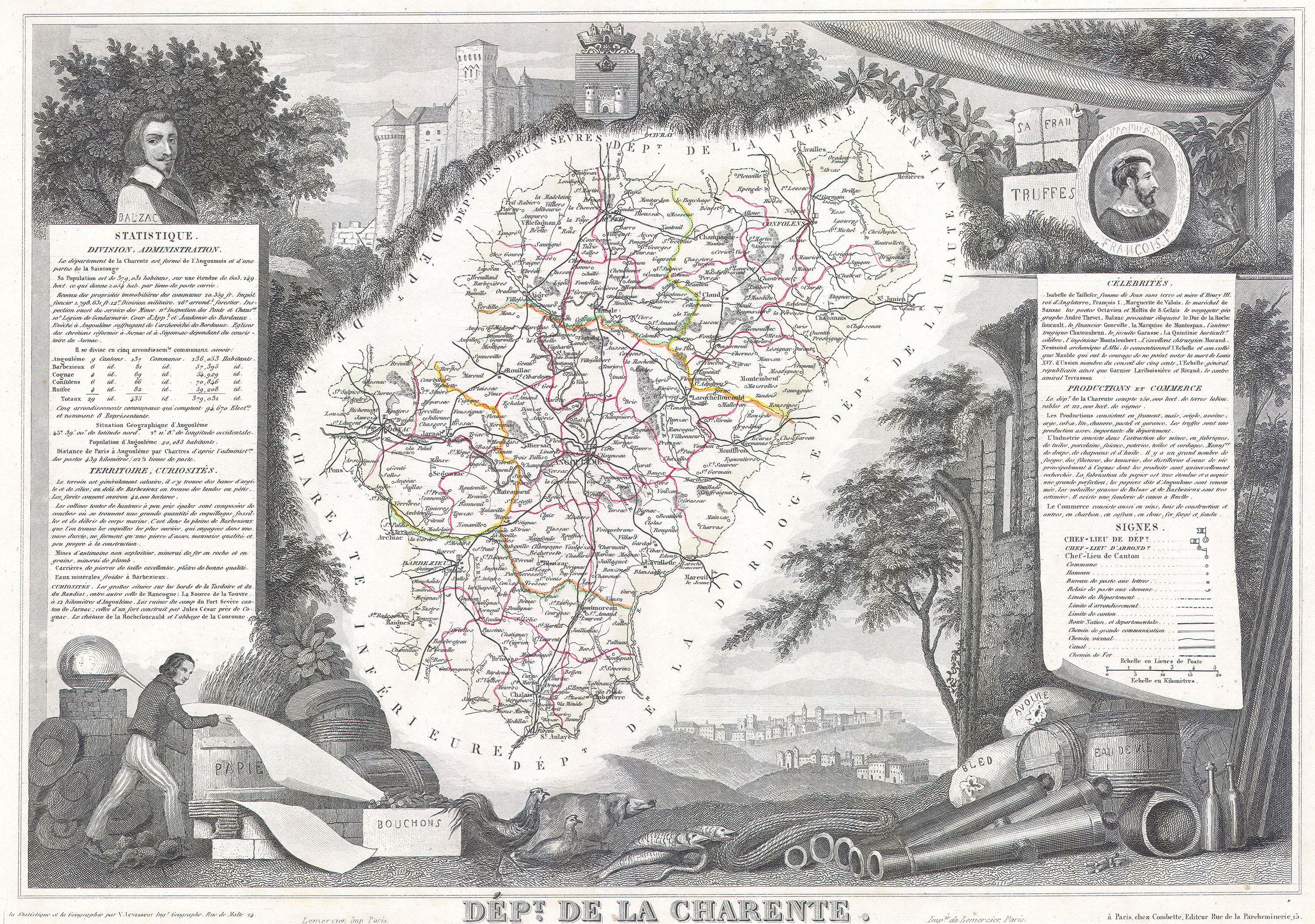 This is a fascinating 1847 map of the Department de la Charente, France. This region is known for its fine wines, agriculture, distilled spirits, and cheese. The capital city is Angouleme. The whole is surrounded by elaborate decorative engravings designed to illustrate both the natural beauty and trade richness of the land. There is a short textual history of the regions depicted on both the left and right sides of the map.